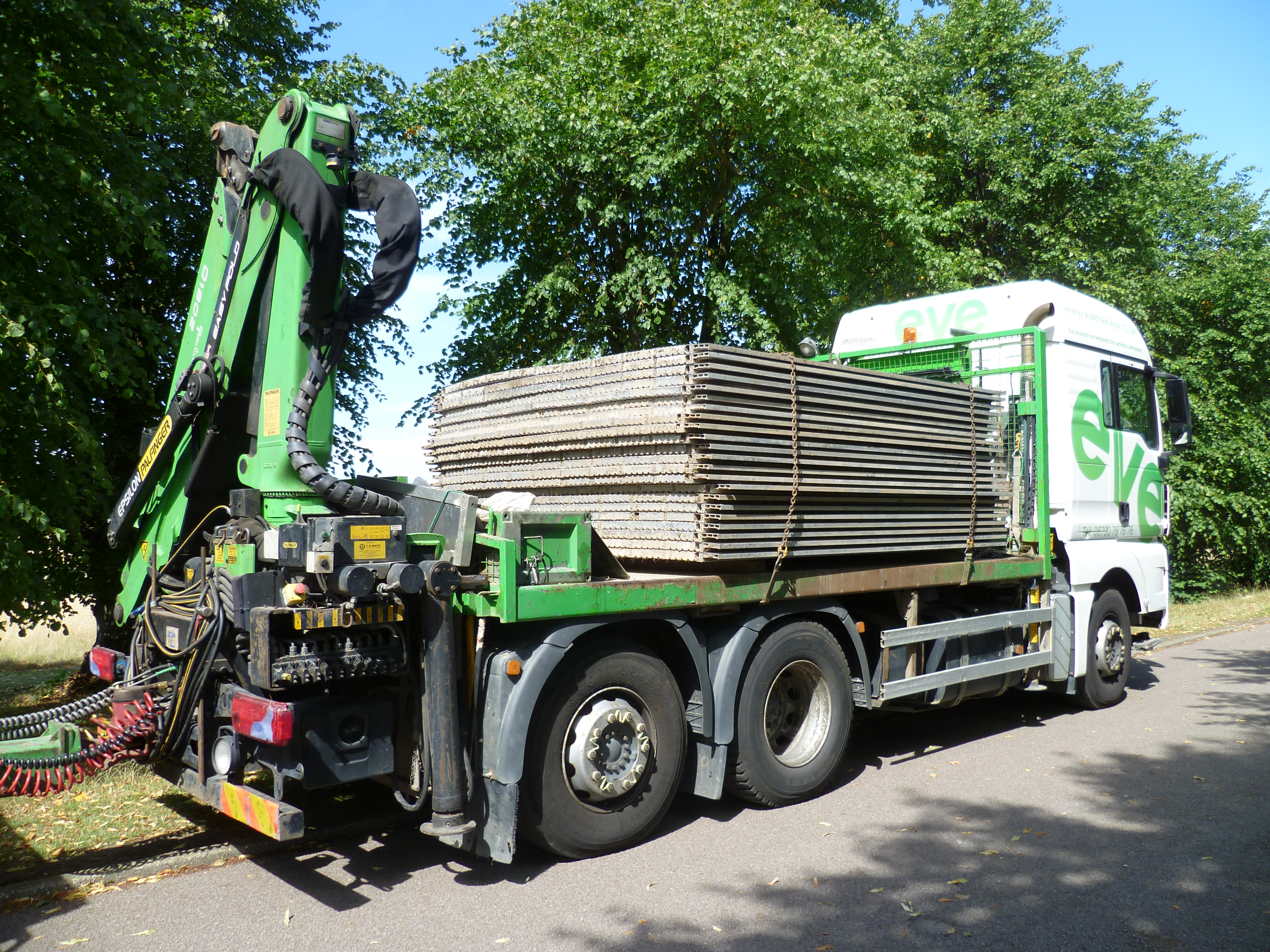 Eve Trackway